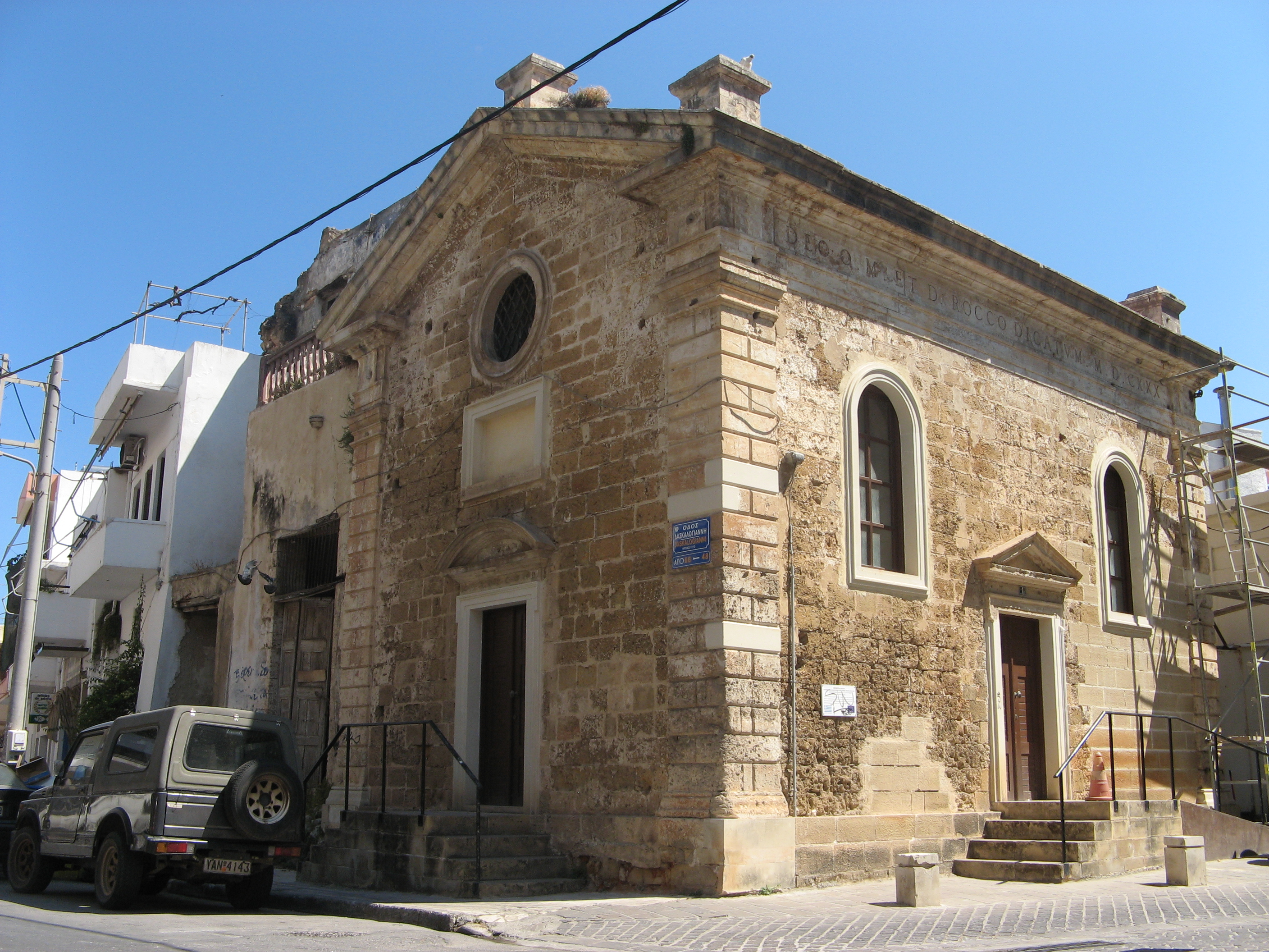 Agios Rokkos church in Chania, Crete